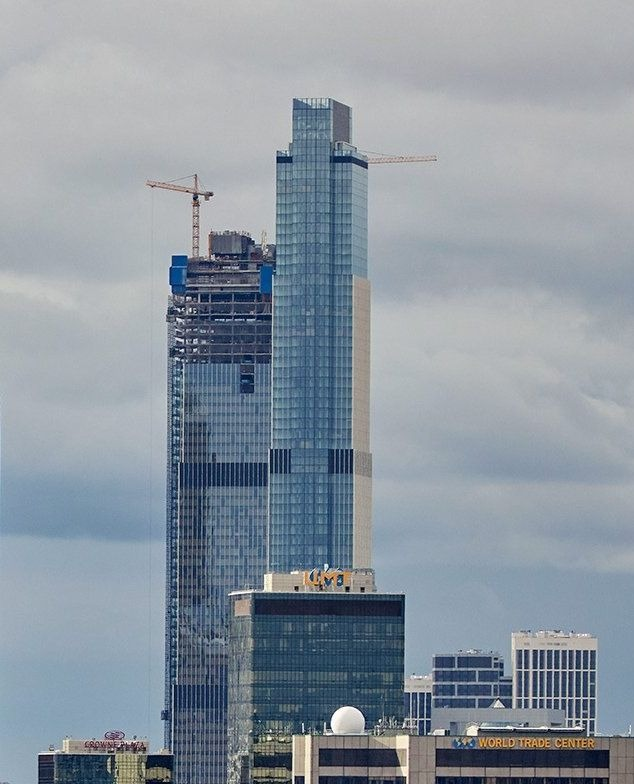 Neva Towers in Moscow